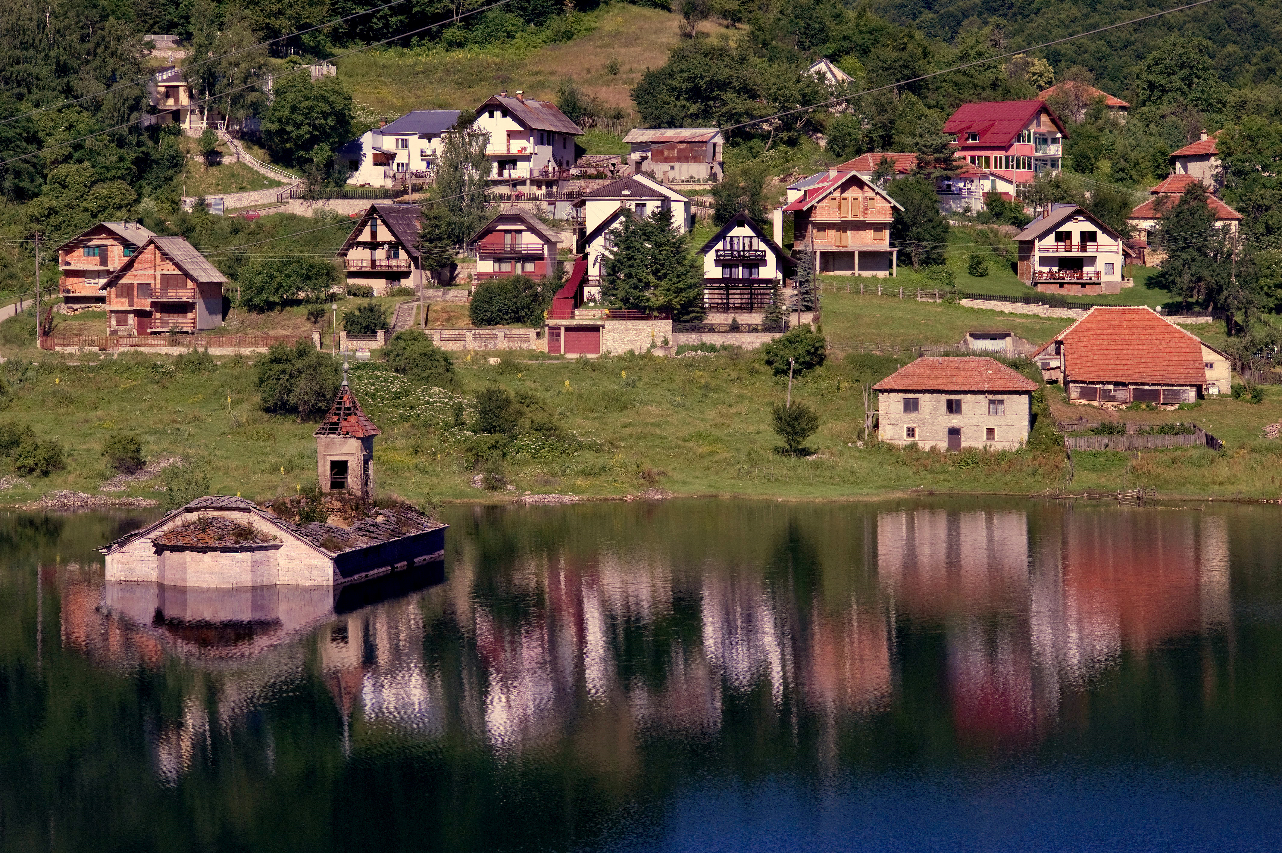 Mavrovo lake and St Nicholas Church in Summer, Republic of Macedonia.